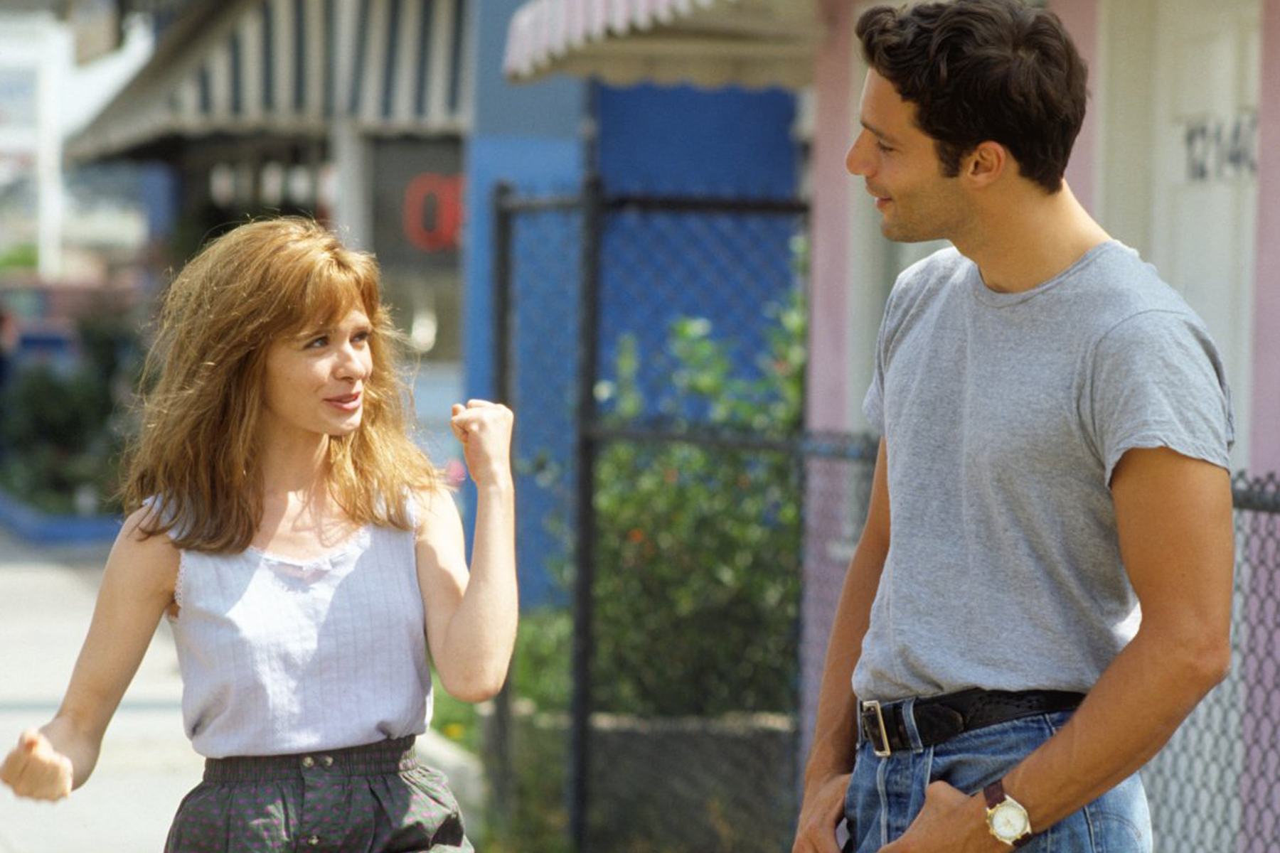 Adrienne Shelly as Dannie and Max Parish as Eli/Bud/Fritz